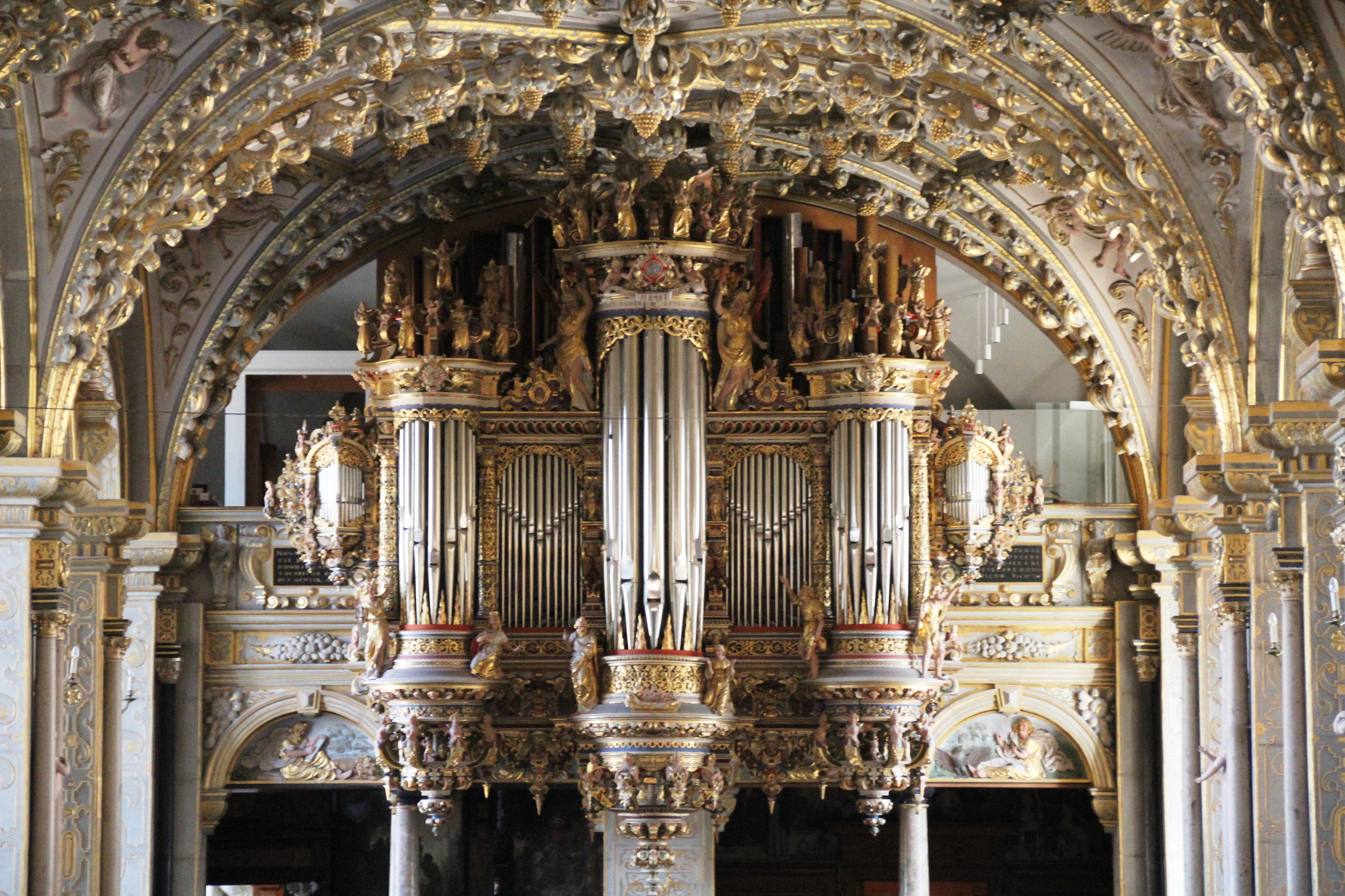 Frederiksborg Castle Chapel, eastern Sjælland, Denmark